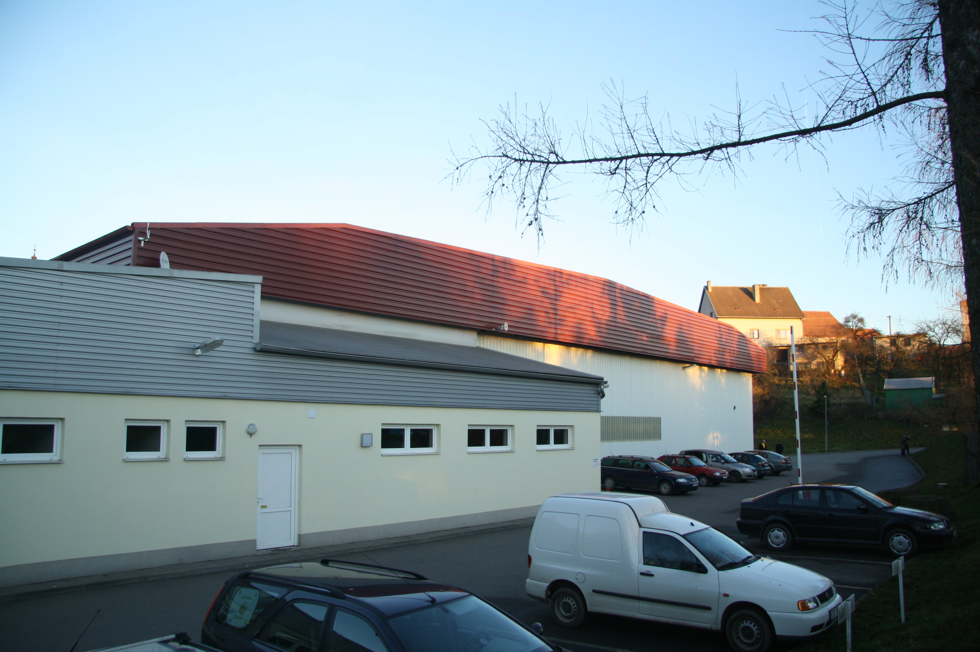 Ice hockey venue in Moravské Budějovice, Třebíč District.